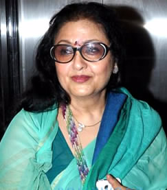 Leena Chandavarkar at 4th Bharat Ratan Dr. Ambedkar Awards 2014